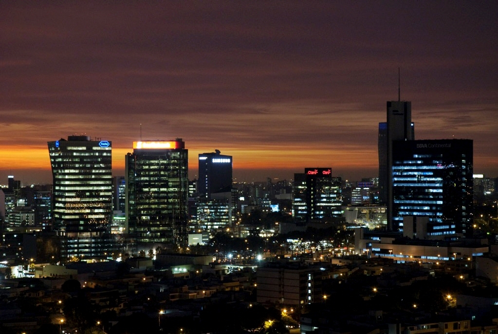 Lima, Peru.